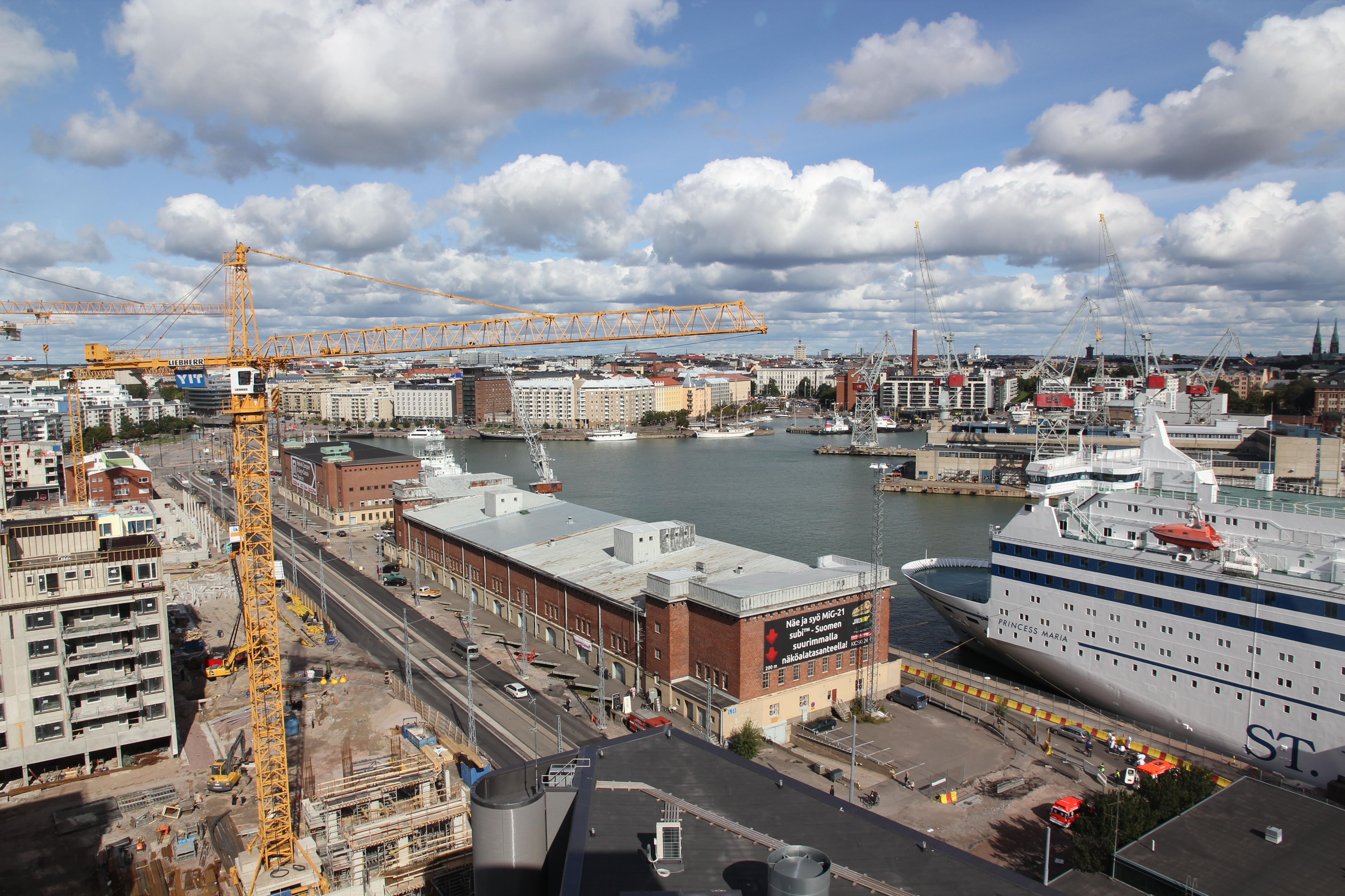 Hietalahti bay photographed from Verkkokauppa building observation terace in Jätkäsaari. Itämerenkatu street on left.